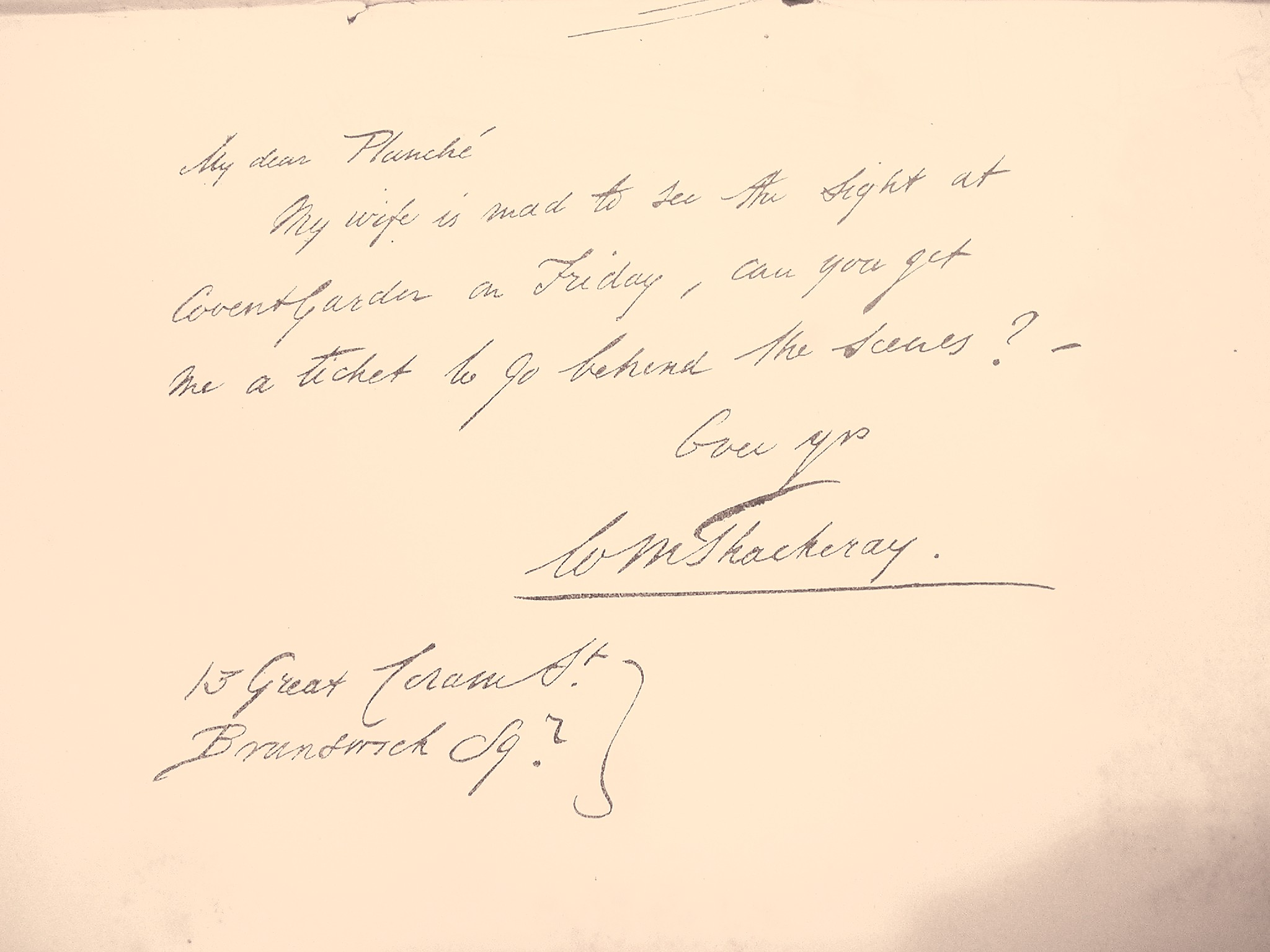 Letter from William Makepeace Thackeray (1811–1863) to playwright James Robinson Planché (1796–1880) asking for tickets to go behind the scenes at one of his plays.